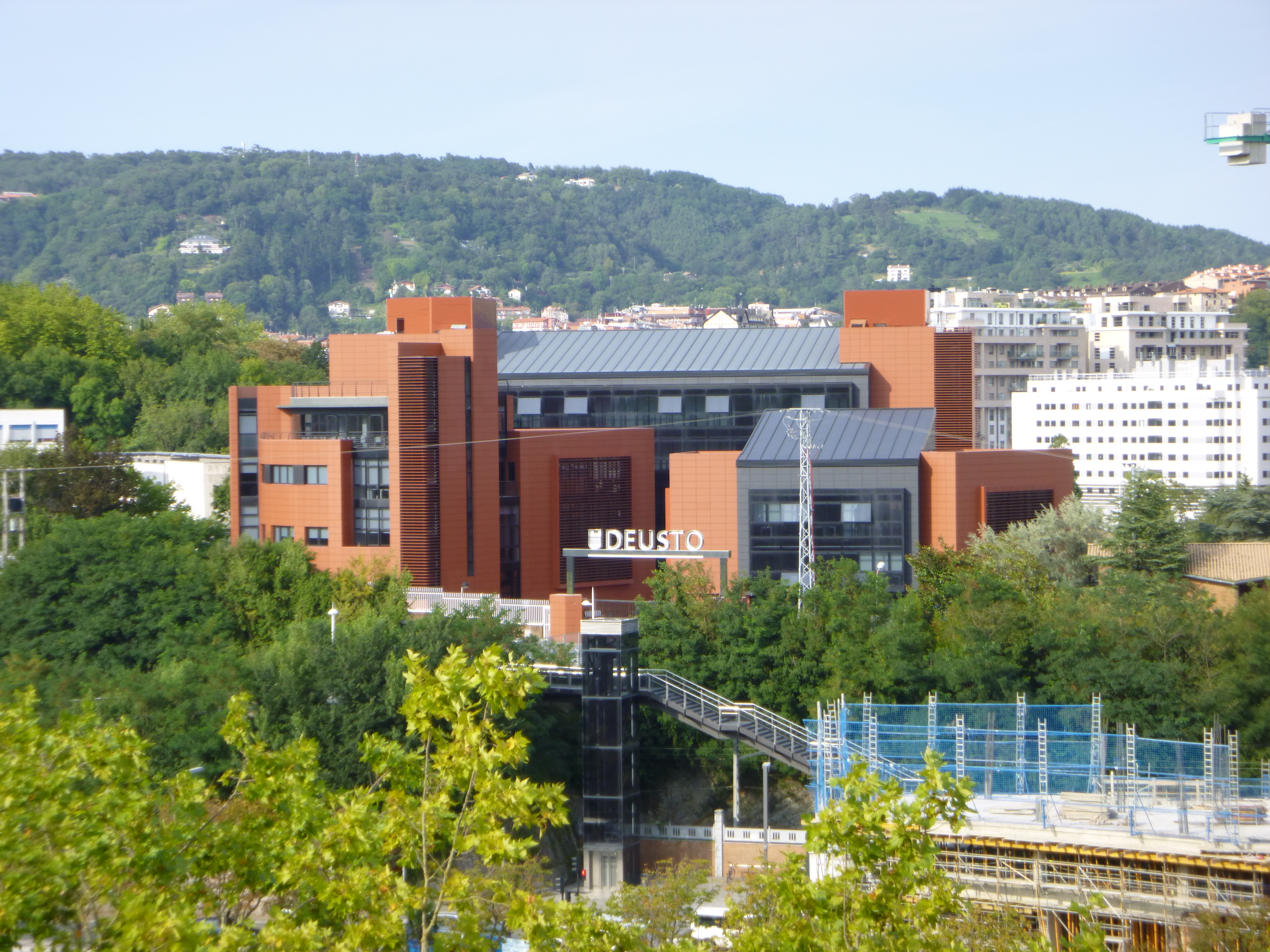 Deusto University, Mundaiz